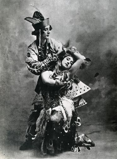 Tamara Karsavina as the firebird and Michel Fokine as prince Ivan in the 1910 Ballets Russes ballet The Firebird.